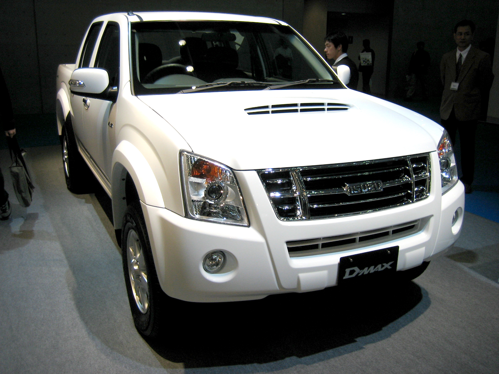 Isuzu D-MAX in Tokyo motor show 2007